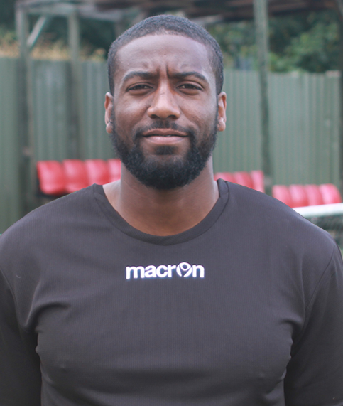 Tyrone Berry's 2015/16 squad photo for Walton Casuals.